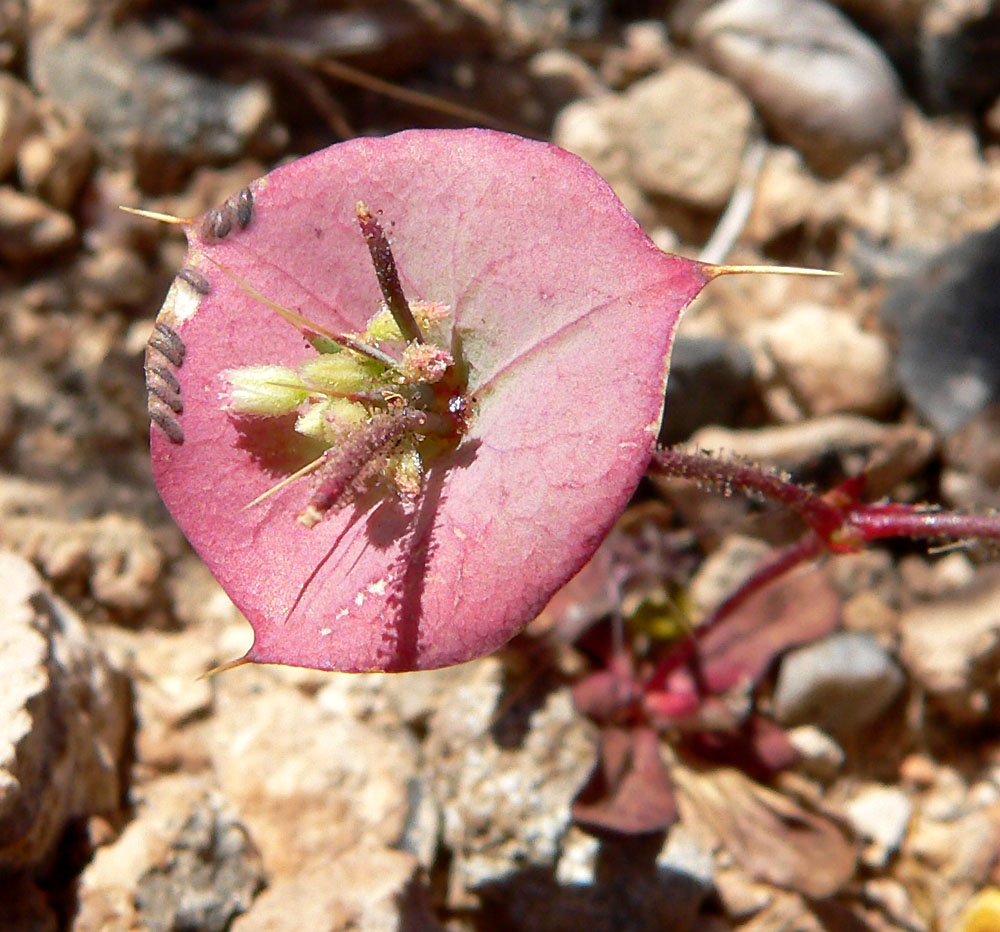 Oxytheca perfoliata in Kyle Canyon, Spring Mountains, west of Las Vegas, Nevada